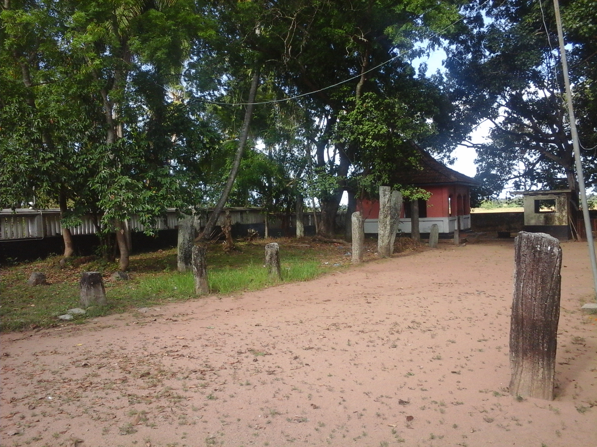 Udayagiri Rajamaha Vihara - Ruins